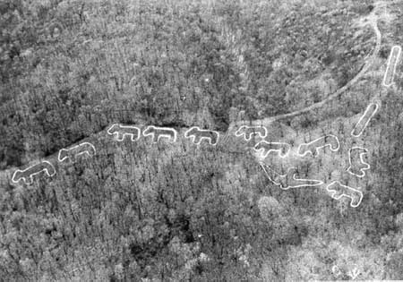 Marching Bear Mounds at Effigy Mounds National Monument, Iowa, USA (nothern part)